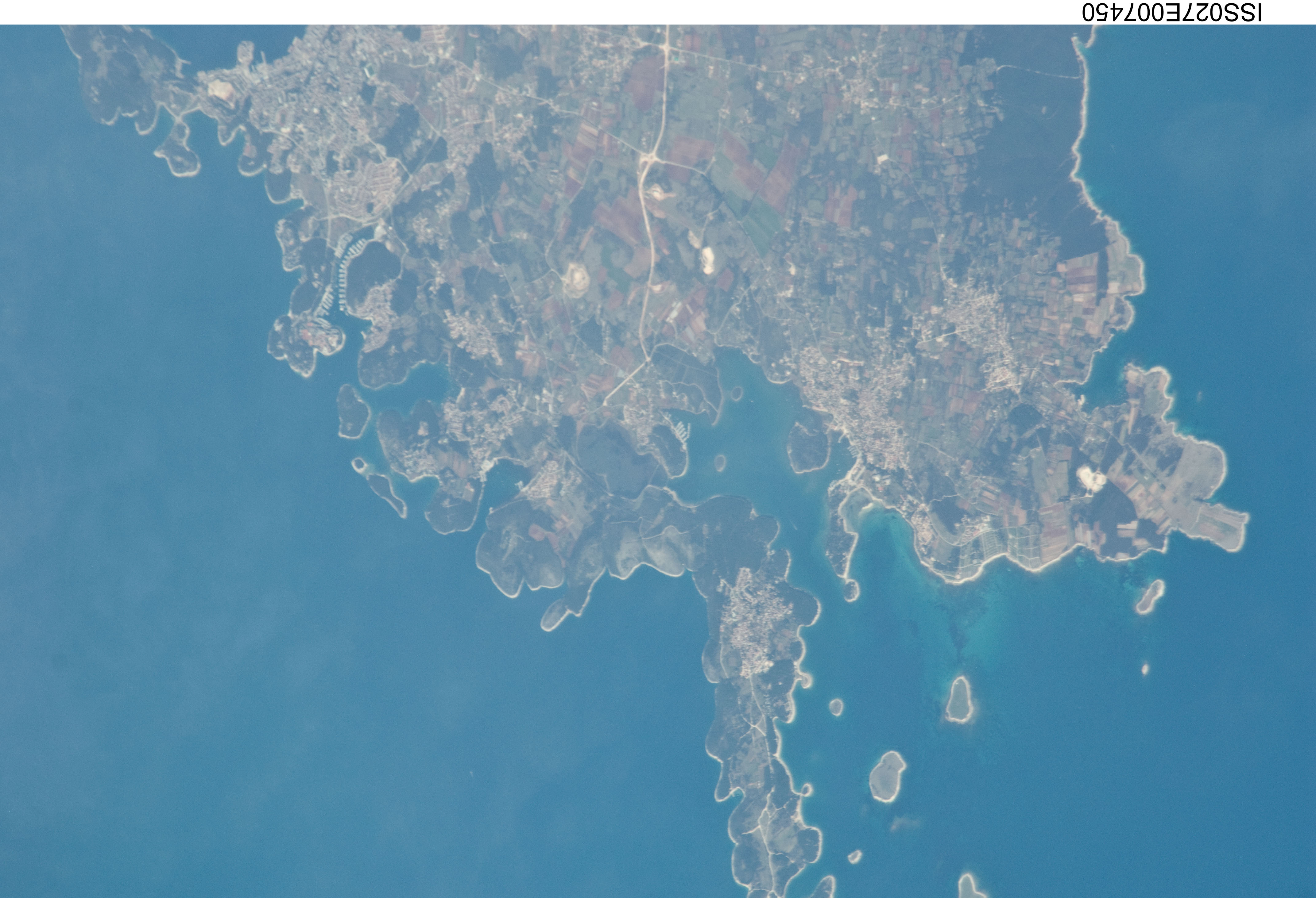 Medulin and Pula